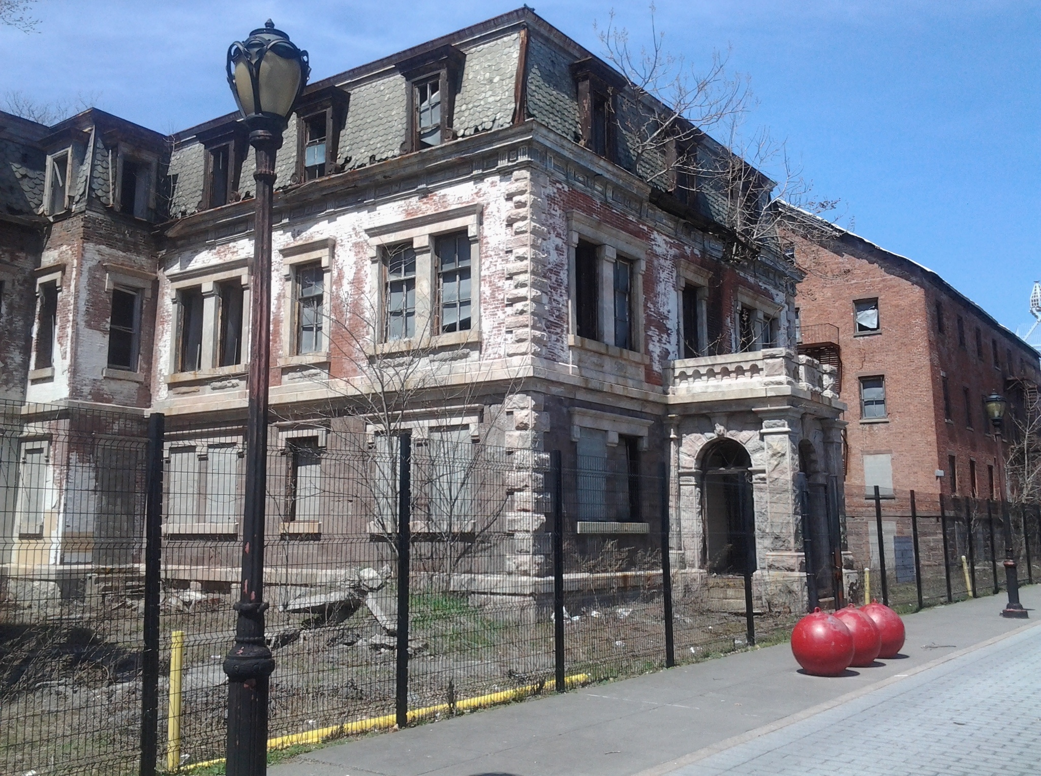 Office building of the U.S. Light-House Depot Complex in St. George, Staten Island, New York City. Built 1869. Architect was Alfred B. Mullett, who designed many other Federal buildings nationwide. On National Register of Historic Places (Office Building and U.S. Light-House Depot Complex, NRHP Reference # 83001785, Sept. 15, 1983). Also designated New York City Landmark (Old Administration Building (Third District U.S. Lighthouse Depot) U.S. Coast Guard Station, LP-1112, Nov. 25, 1980).